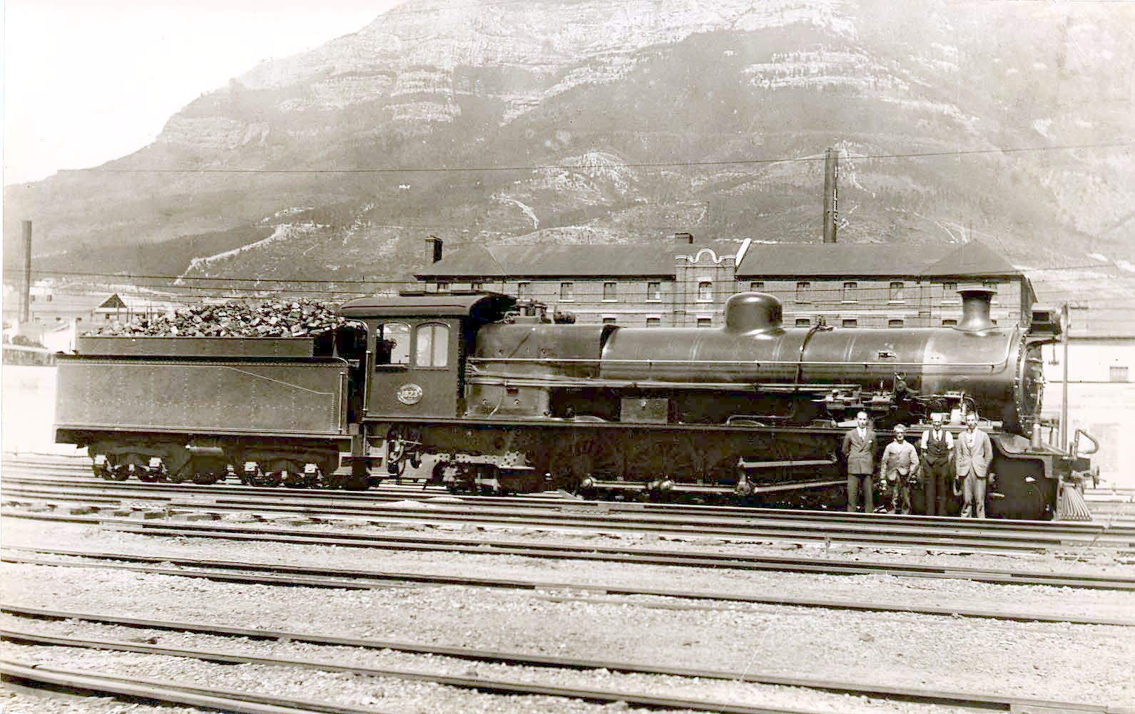 SAR Class 15A 1823 (4-8-2)